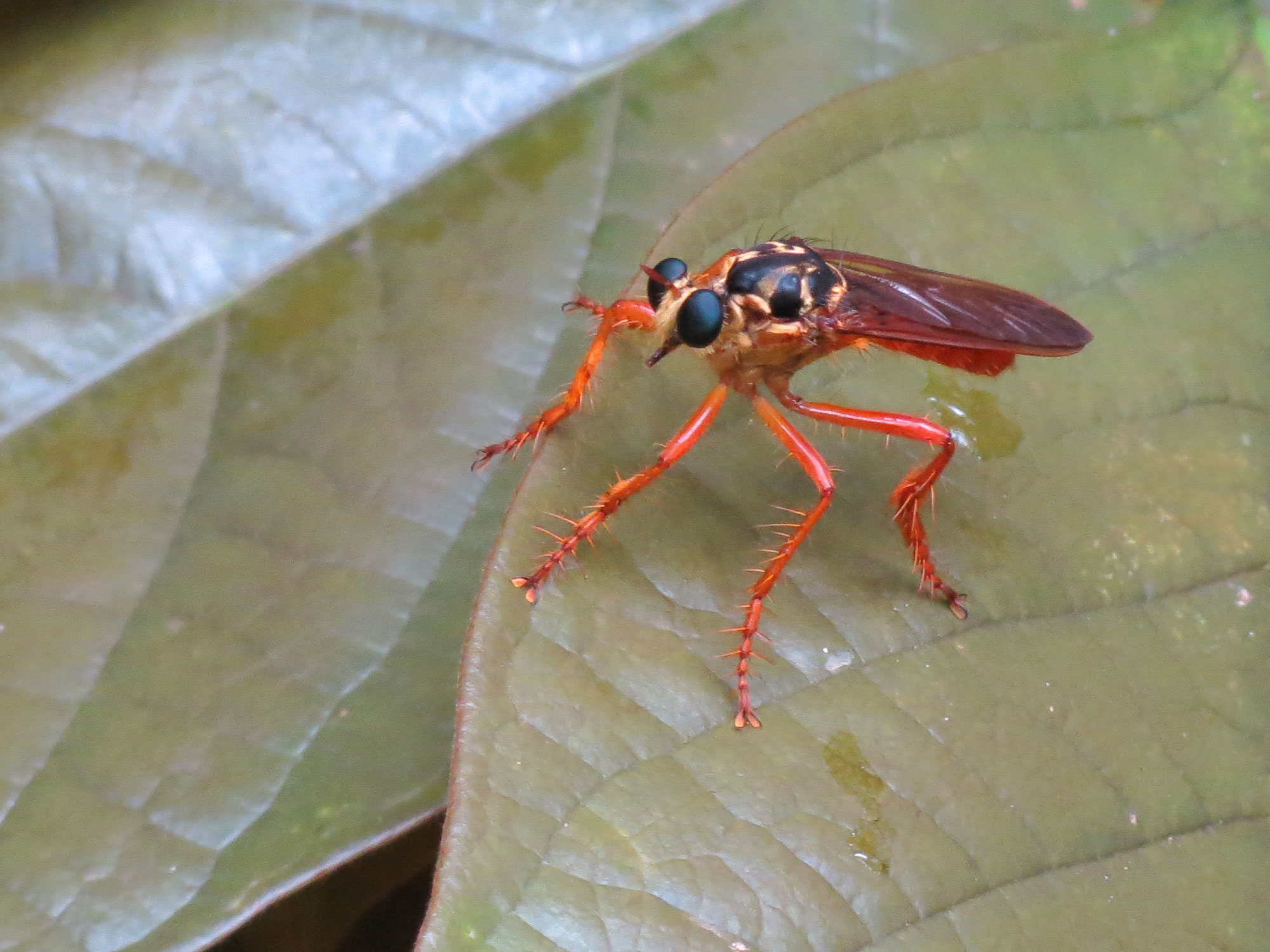 Along Pipeline Road, Soberania National Park, Panama. 22 January 2012. So apparently, this is Smeryngolaphria numitor after all: I didn't think it was hairy enough based on other photos I had seen of this species.